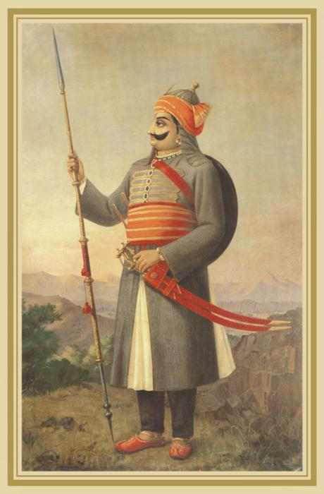 Portrait of Maharana Pratap Singh (1572-97) based on miniature made available to artist from palace.